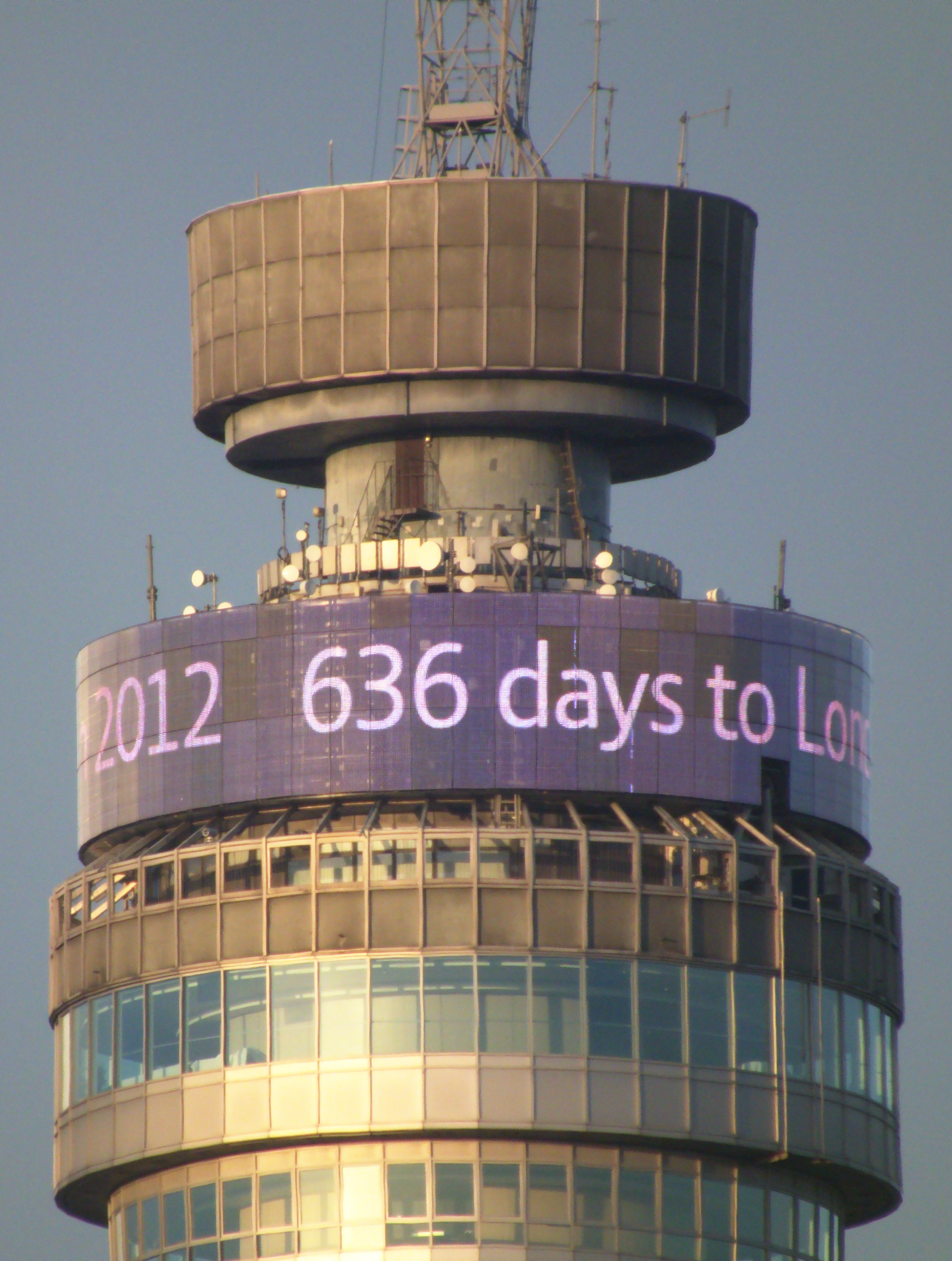 Upper part of the BT Tower in London, United Kingdom; the scrolling text "636 days to London 2012" refers to the XXX summer olympics.